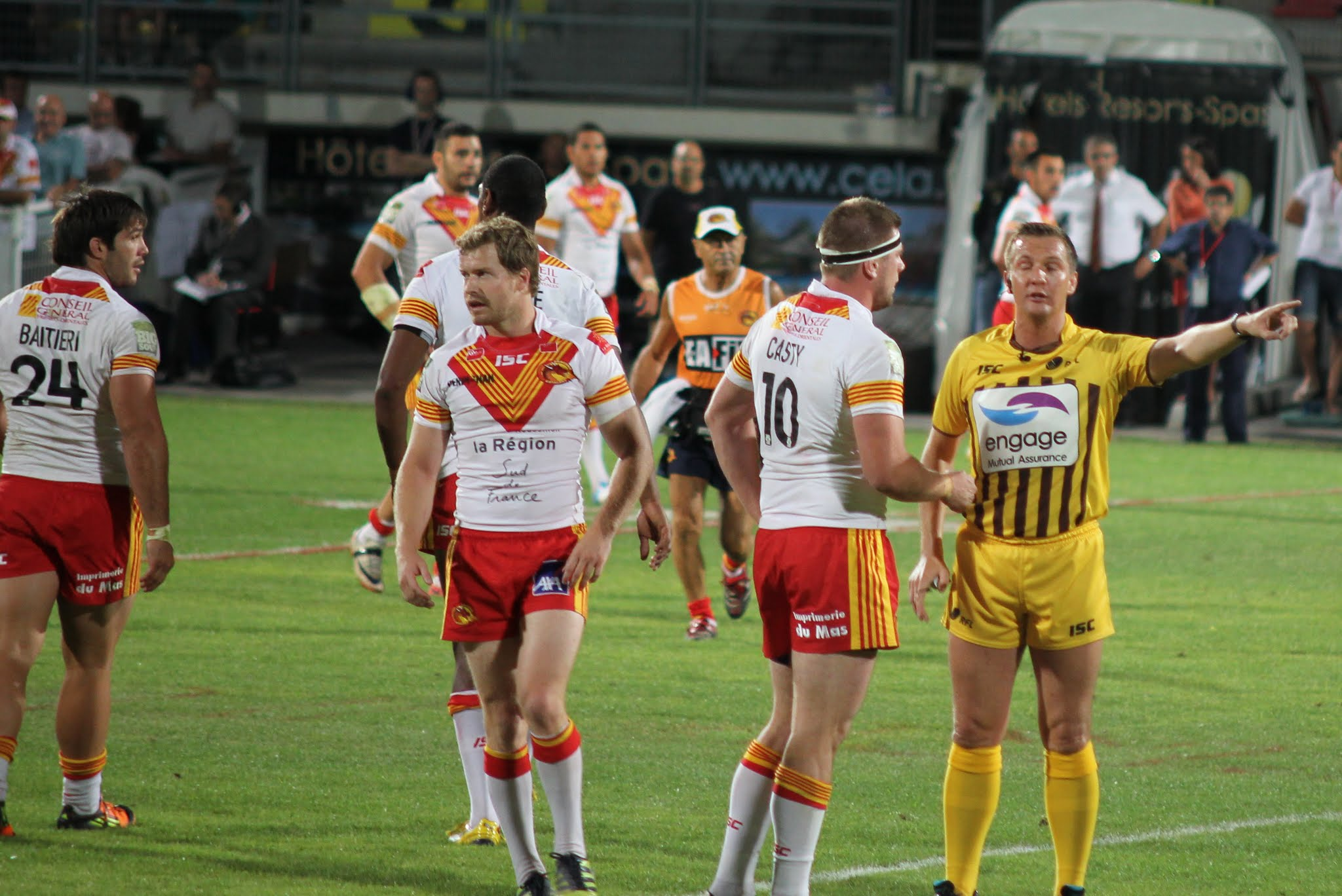 Rugby league game between Catalans Dragons and St Helens.